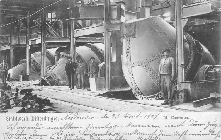 Differdange steelworks, the Thomas converters.